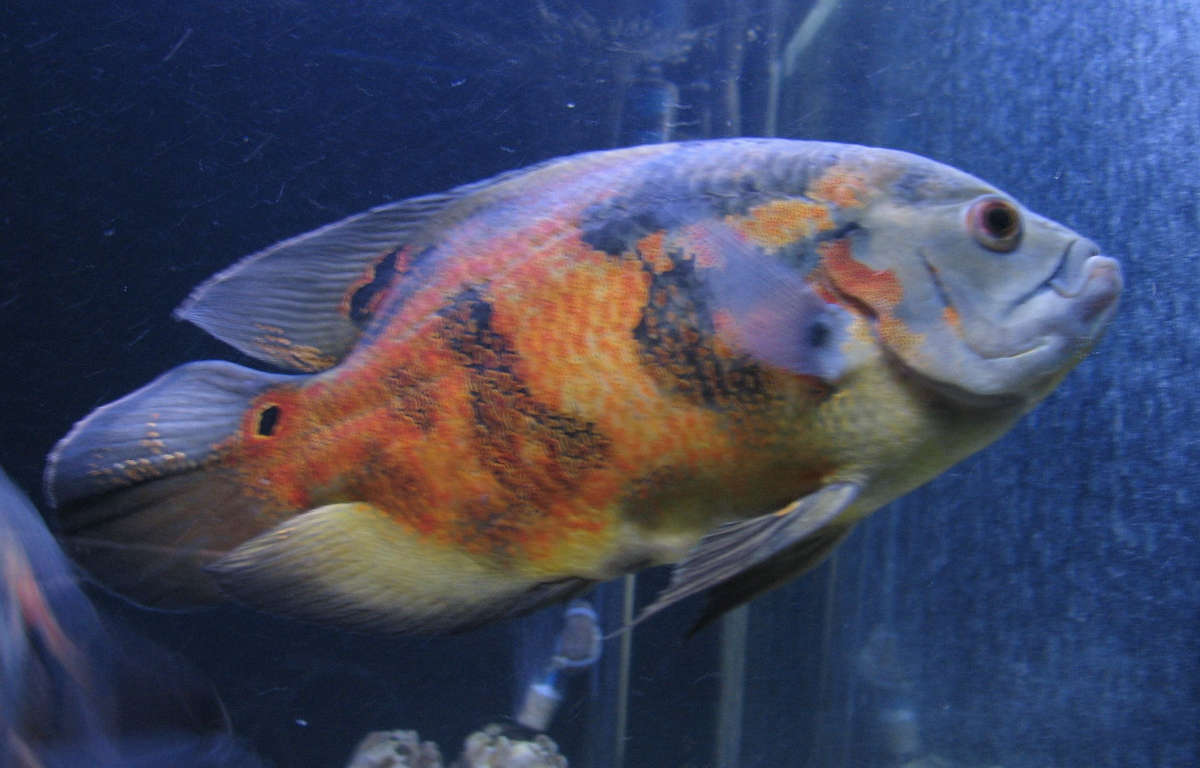 Astronotus ocellatus in aquarium of ZOO Brno, Czech Republic